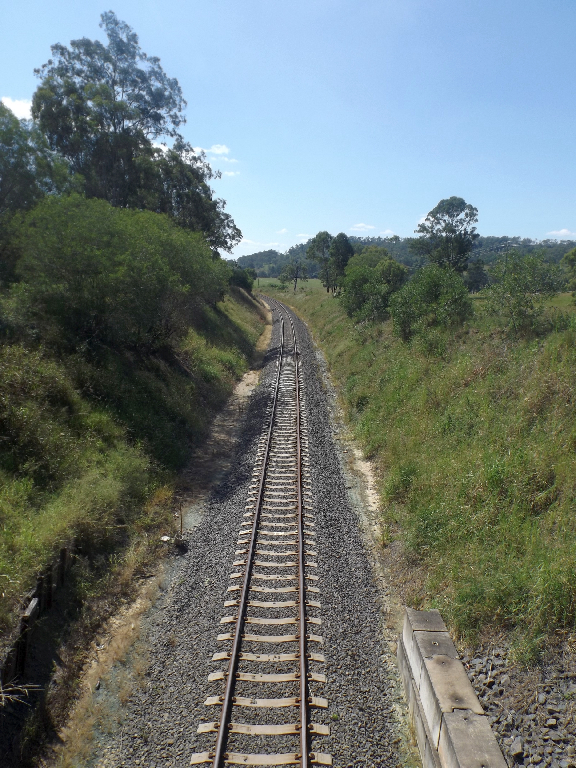 Photo of Sydney Brisbane railway corridor at Josephville, Scenic Rim Region, Queensland, Australia.